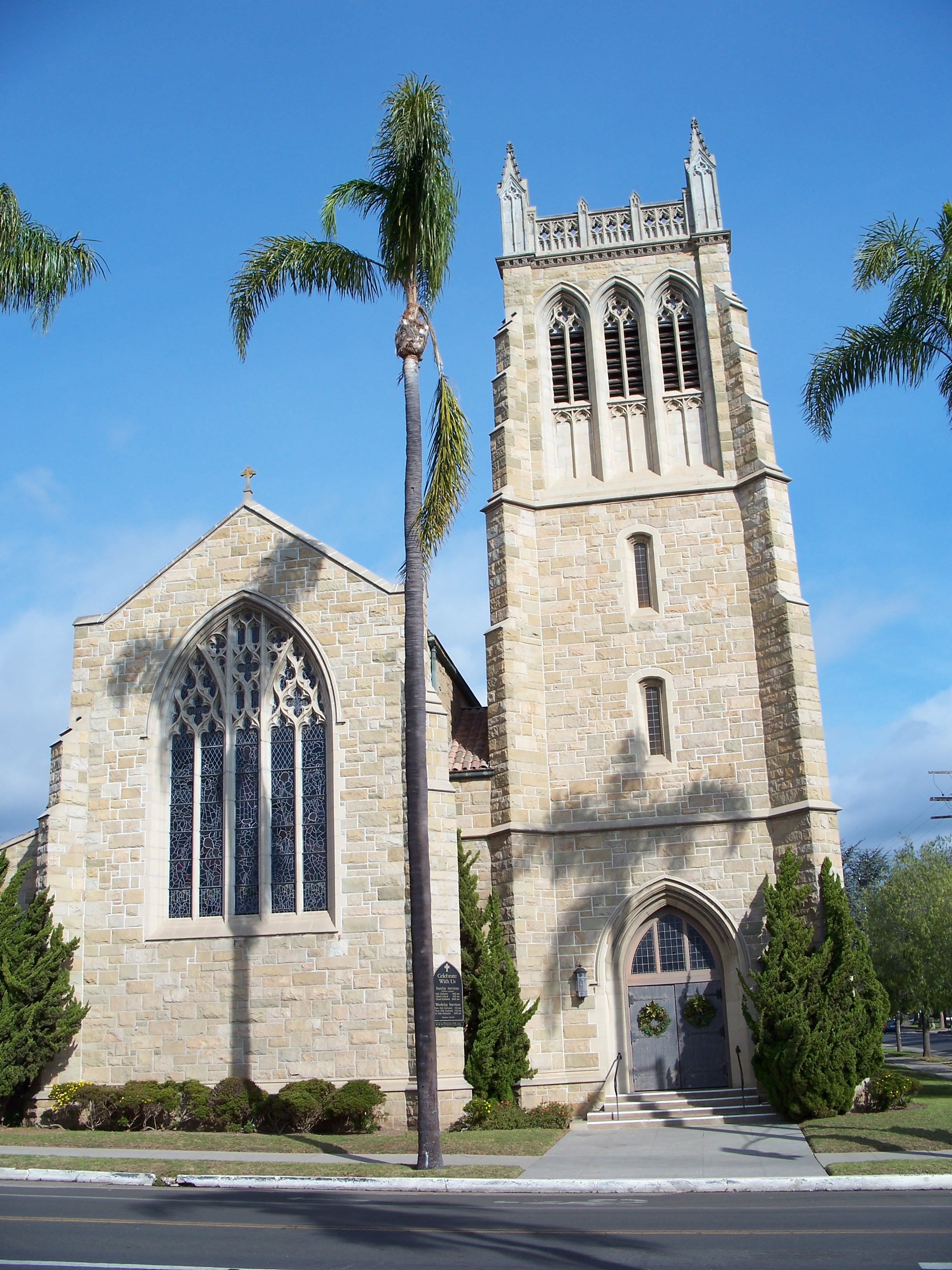 Trinity Episcopal church. 1500 State Street. Santa Barbara, California, USA